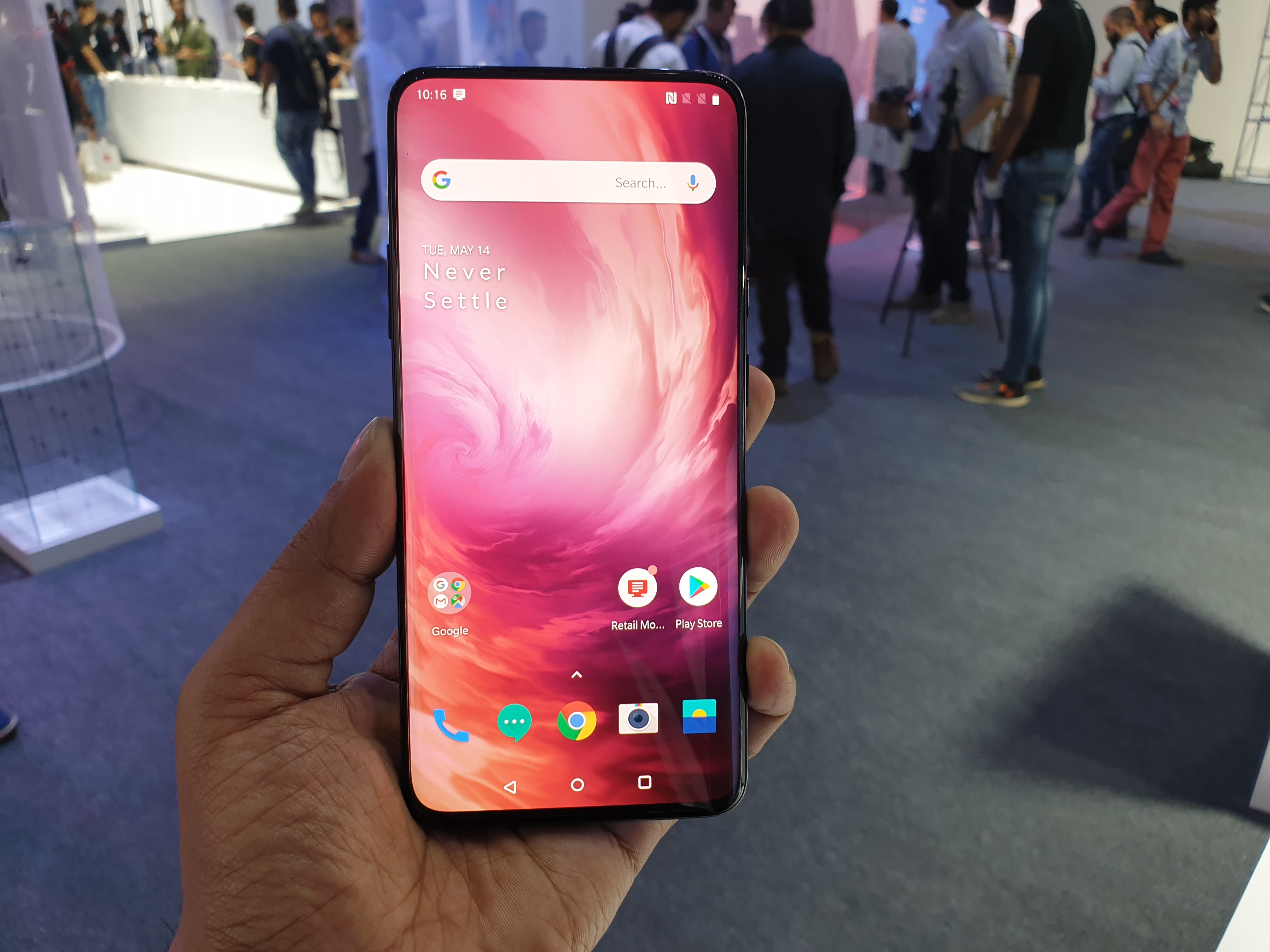 OnePlus 7 Pro in full glory post it global launch